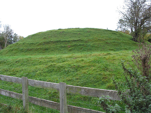 Mound of Motte and Bailey Castle, Hay-on-Wye The mound is the motte of the original Motte and Bailey Castle of The Hay (La Haie), built by the Norman Lord Bernard Newmarch c1100 A.D.